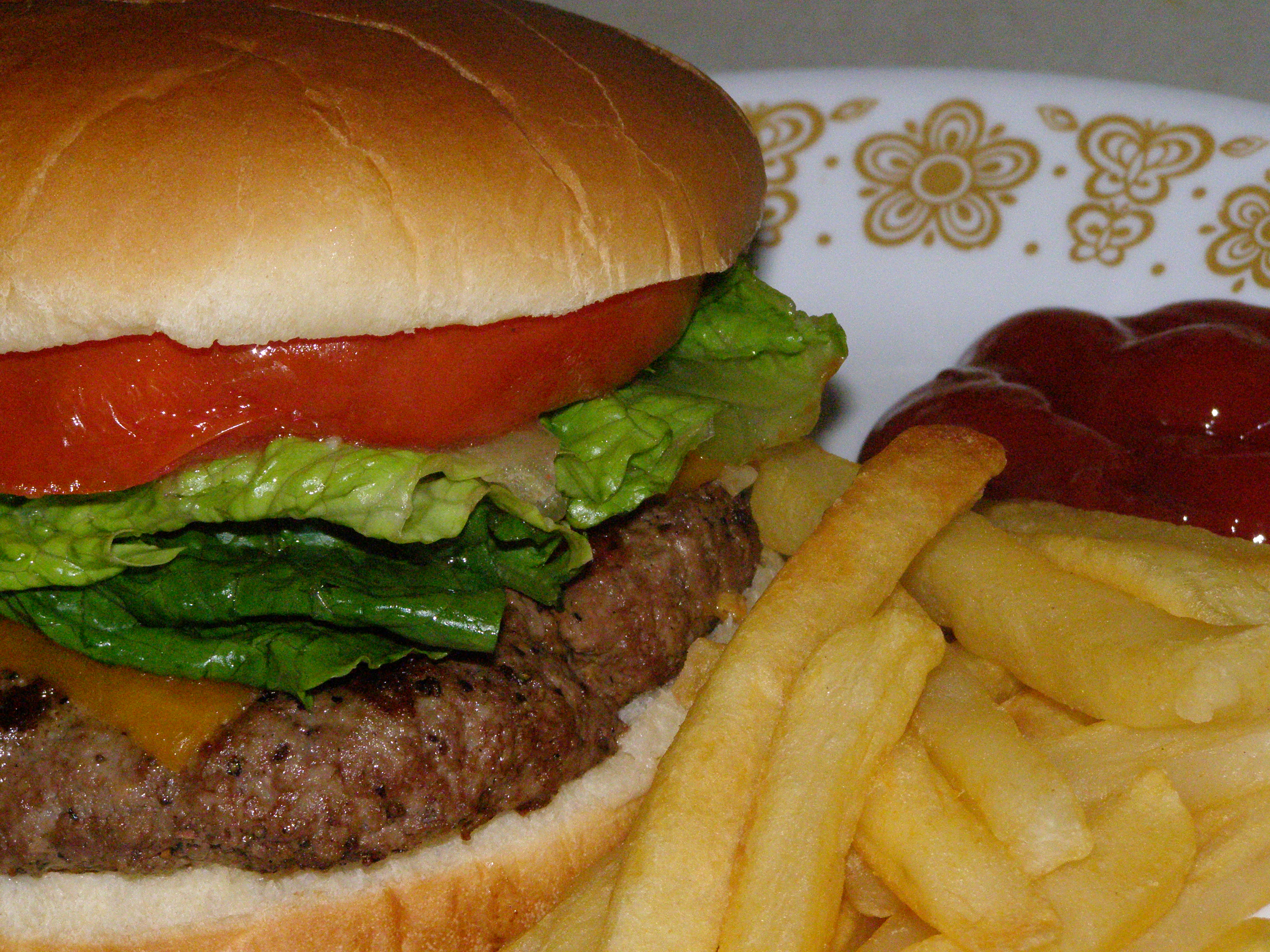 Homemade cheeseburger with french fries.